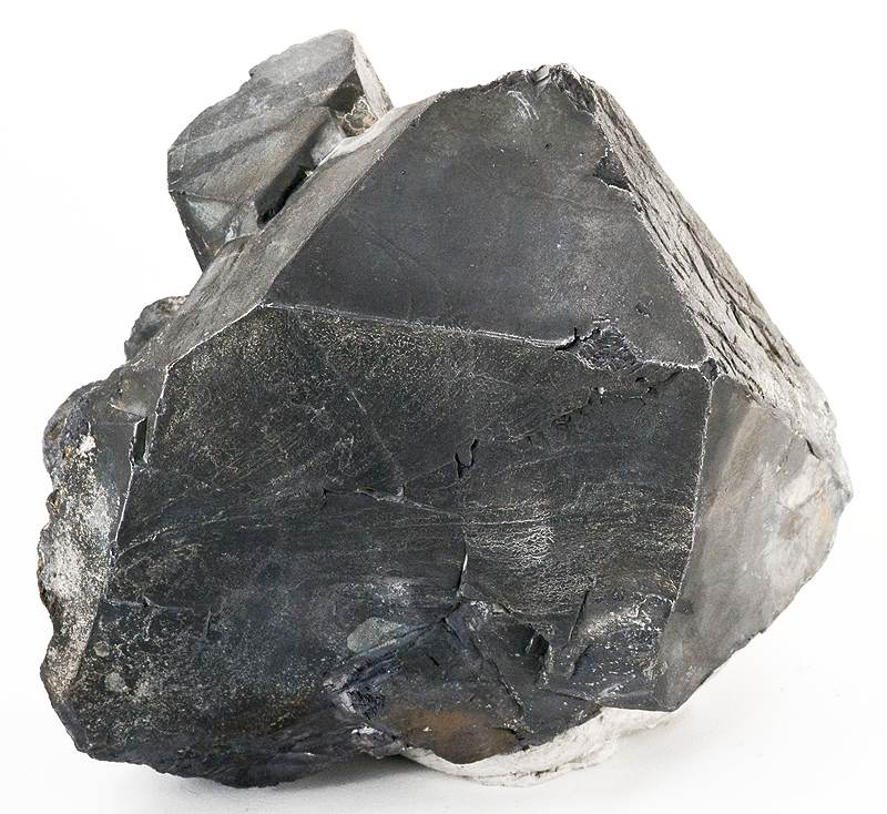 Galena Locality: Galena, Galena District, Jo Daviess County, Illinois, USA (Locality at ) Size: cabinet, 11.2 x 10.4 x 7.5 cm Galena A hand-sized, SHARP galena crystal of some significance because it is from the old lead district in northern Illinois, predating the discovery of the more abundant Missouri lead belt. Valid, antique crystals of galena from Galena are super-rare and this is not only a valid one, but a huge crystal in good condition for the locality. This composite crystal , consisting of a smaller cube in the back merging into this beautiful cuboctohedron, weighs 9 pounds. It is mostly complete on the back, as well. I have not brightened it chemically by cleaning it, to preserve the antique look.